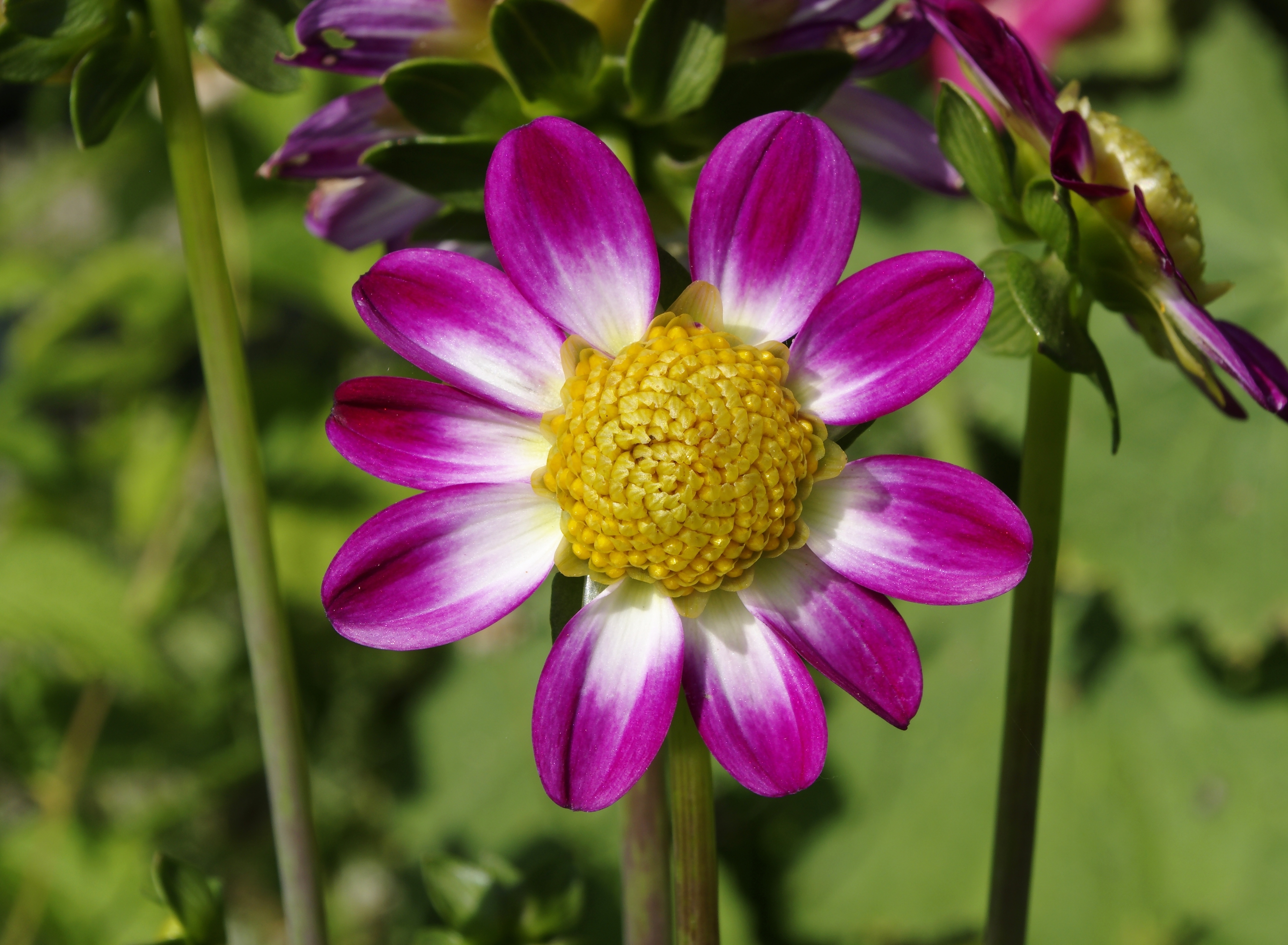 Largeleaf lupin (Dahlia variabilis), in a garden France.